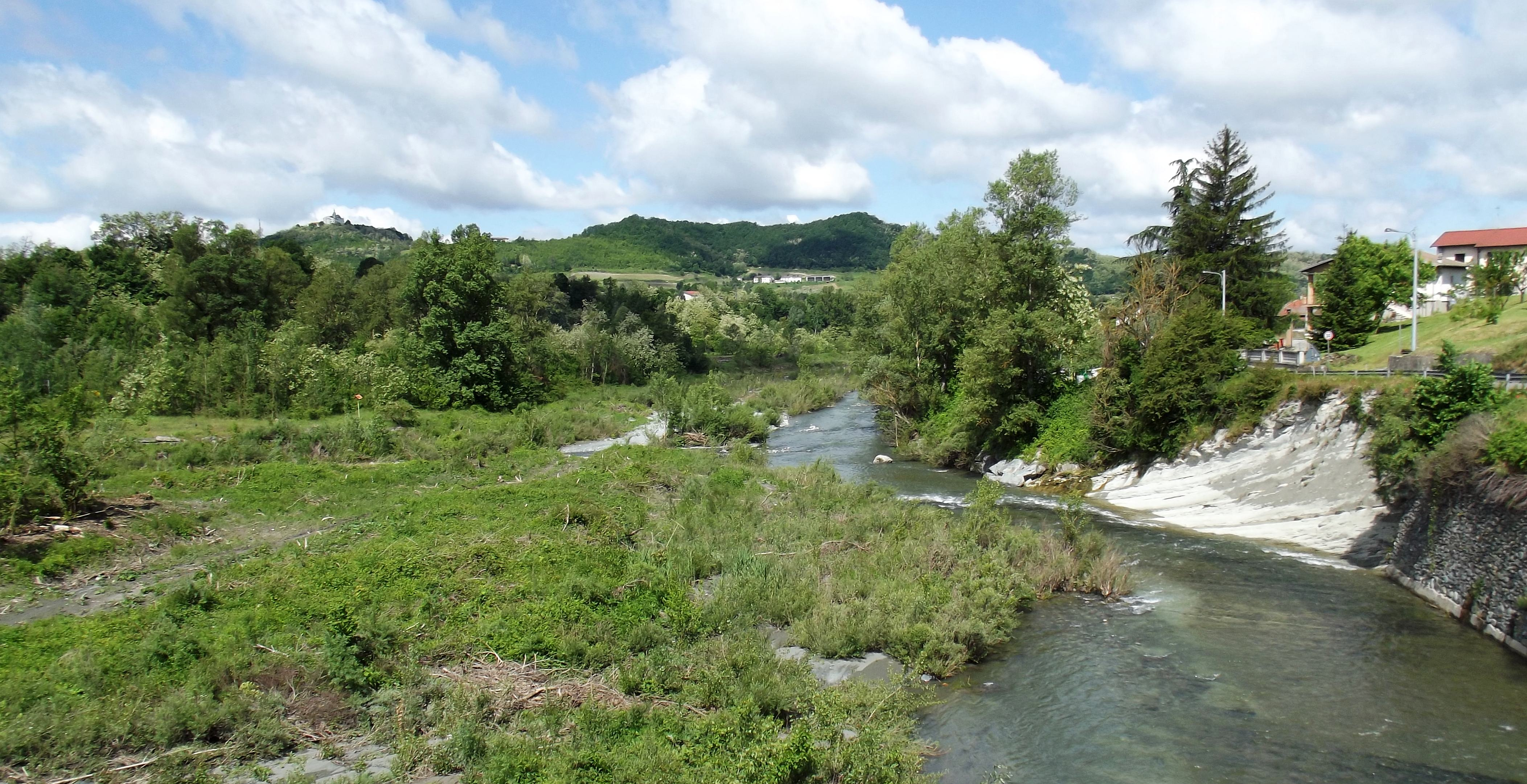 Lemme creek in Gavi (AL, Italy); in the background Nostra Signora della Guardia sanctuary